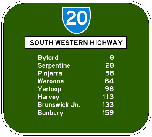 Highway Sign, South Western Highway, Western Australia, approximate road distances (in kilometres) of towns from Armadale